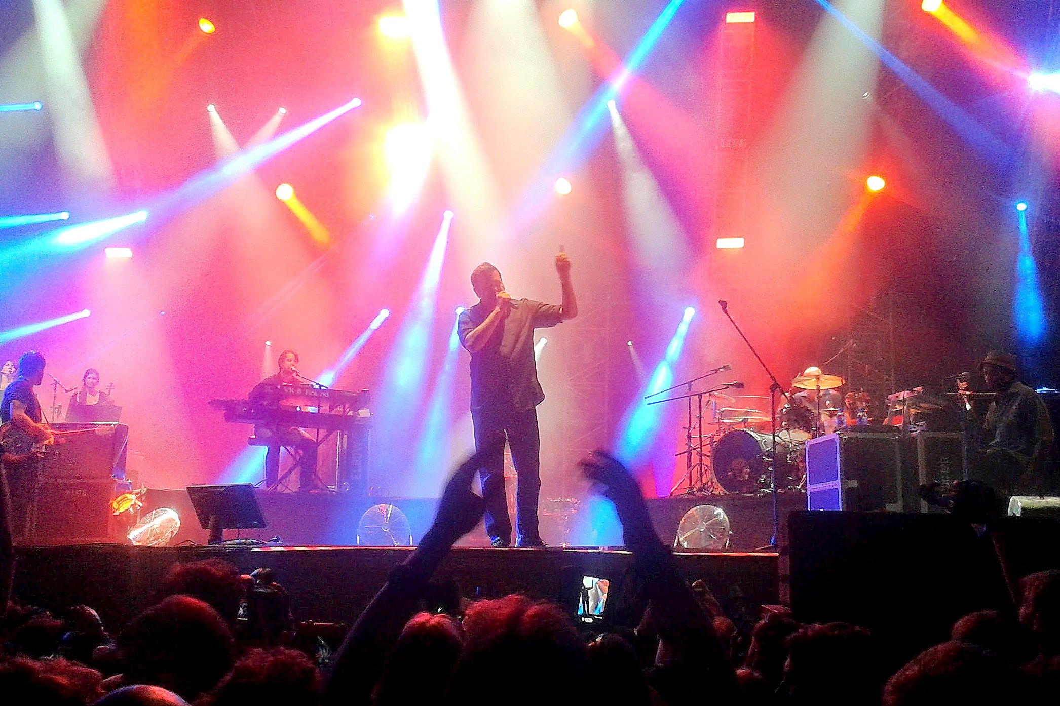 Elbow in festival Positivus 2014 in Salcgriva, Latvia